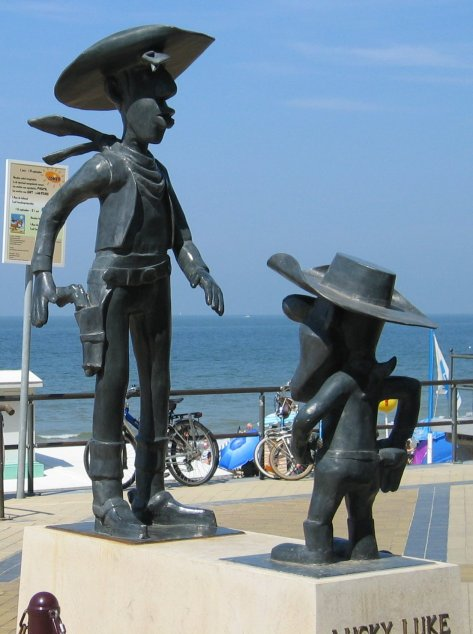 Statue of the comic strip character Lucky Luke and the one of the Dalton brothers; at the beach of Middelkerke, Belgium